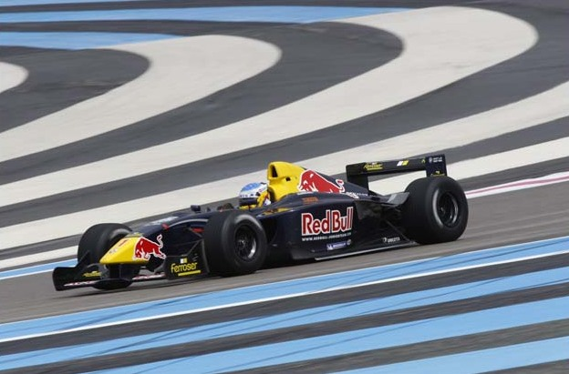 David Zollinger in a Formule Nissan 3L in Castellet